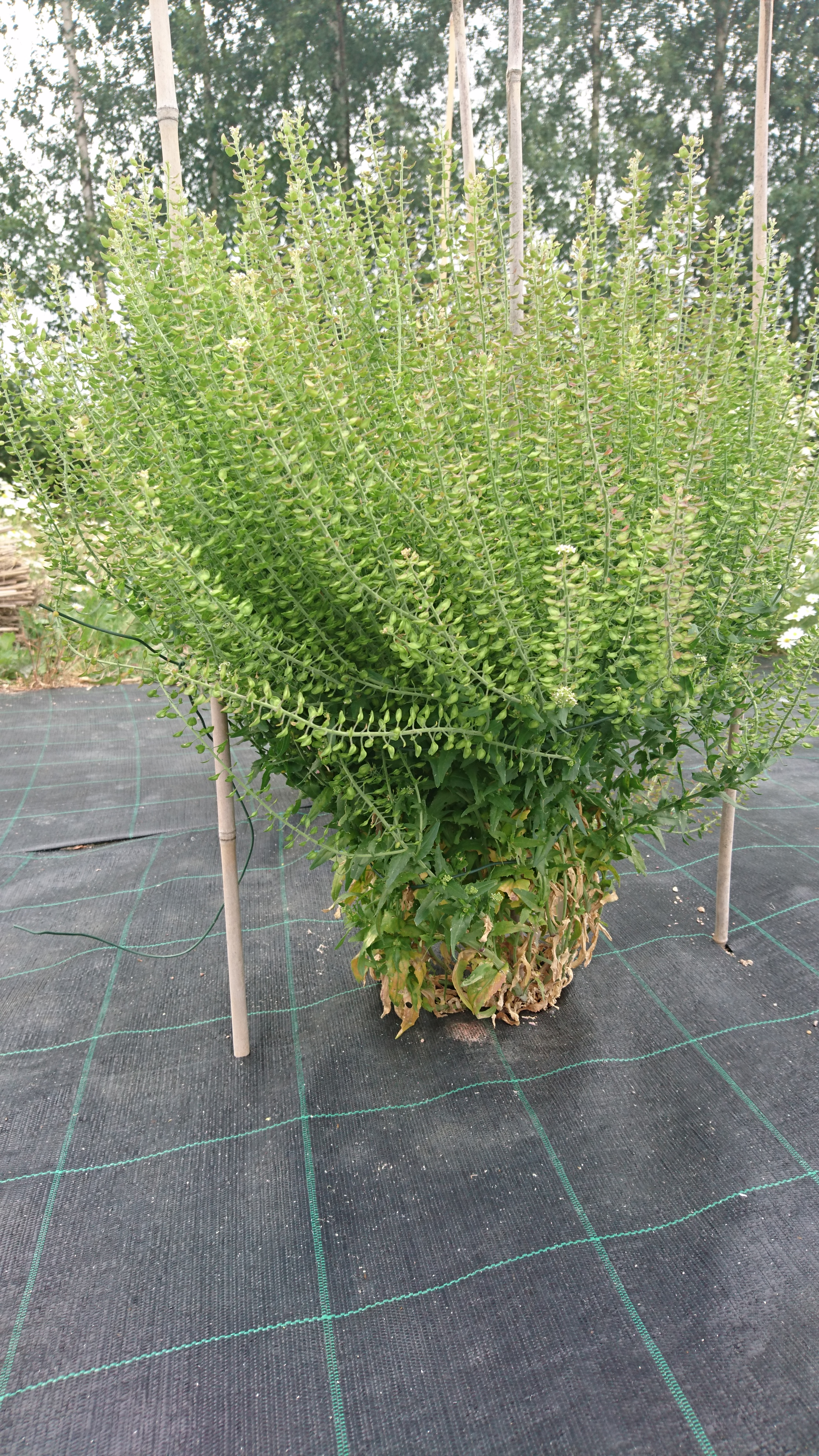 Field cress plant in selection based field trials, Alnarp Sweden 2018